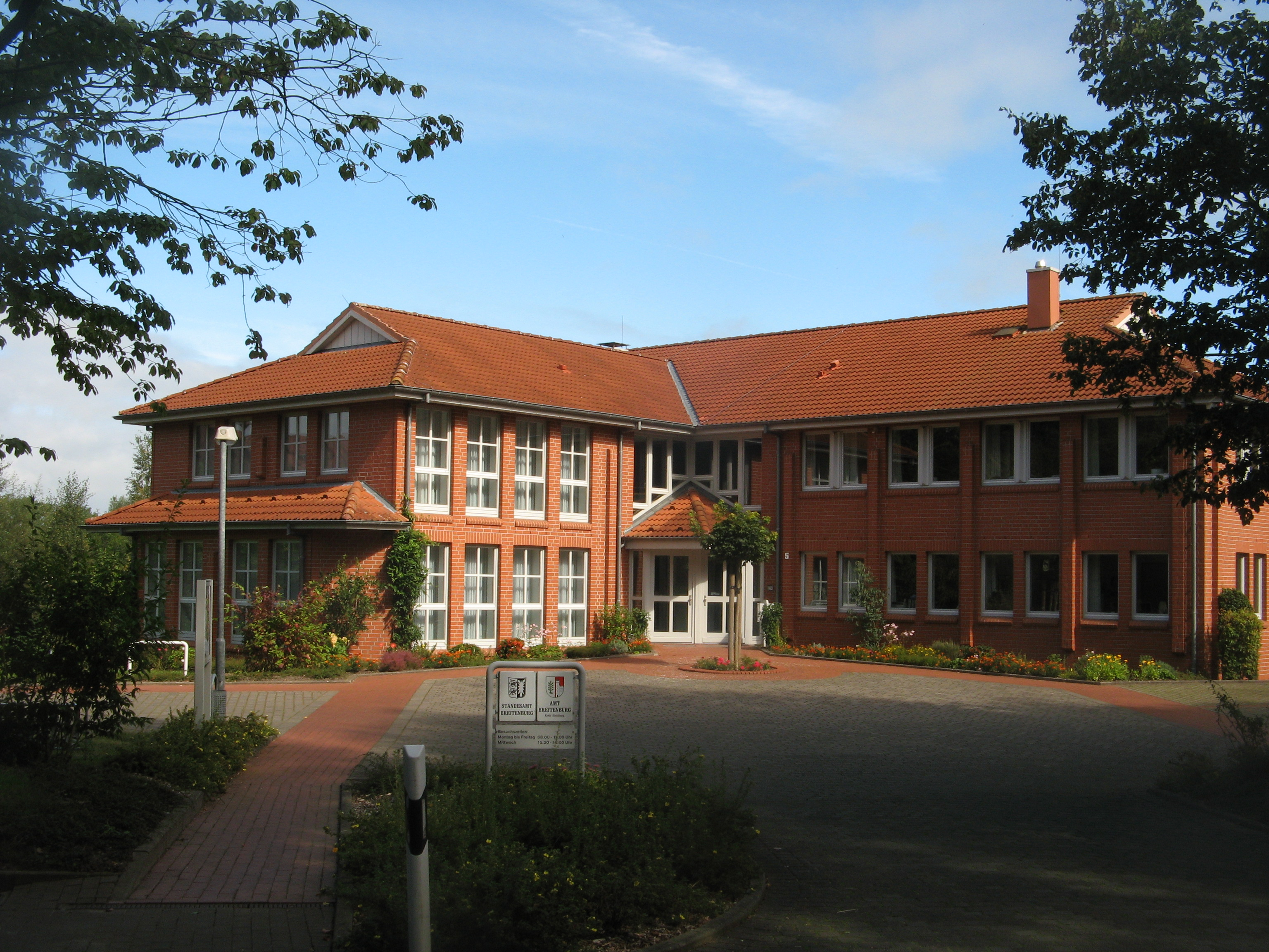 Breitenburg administration, Holstein, Germany